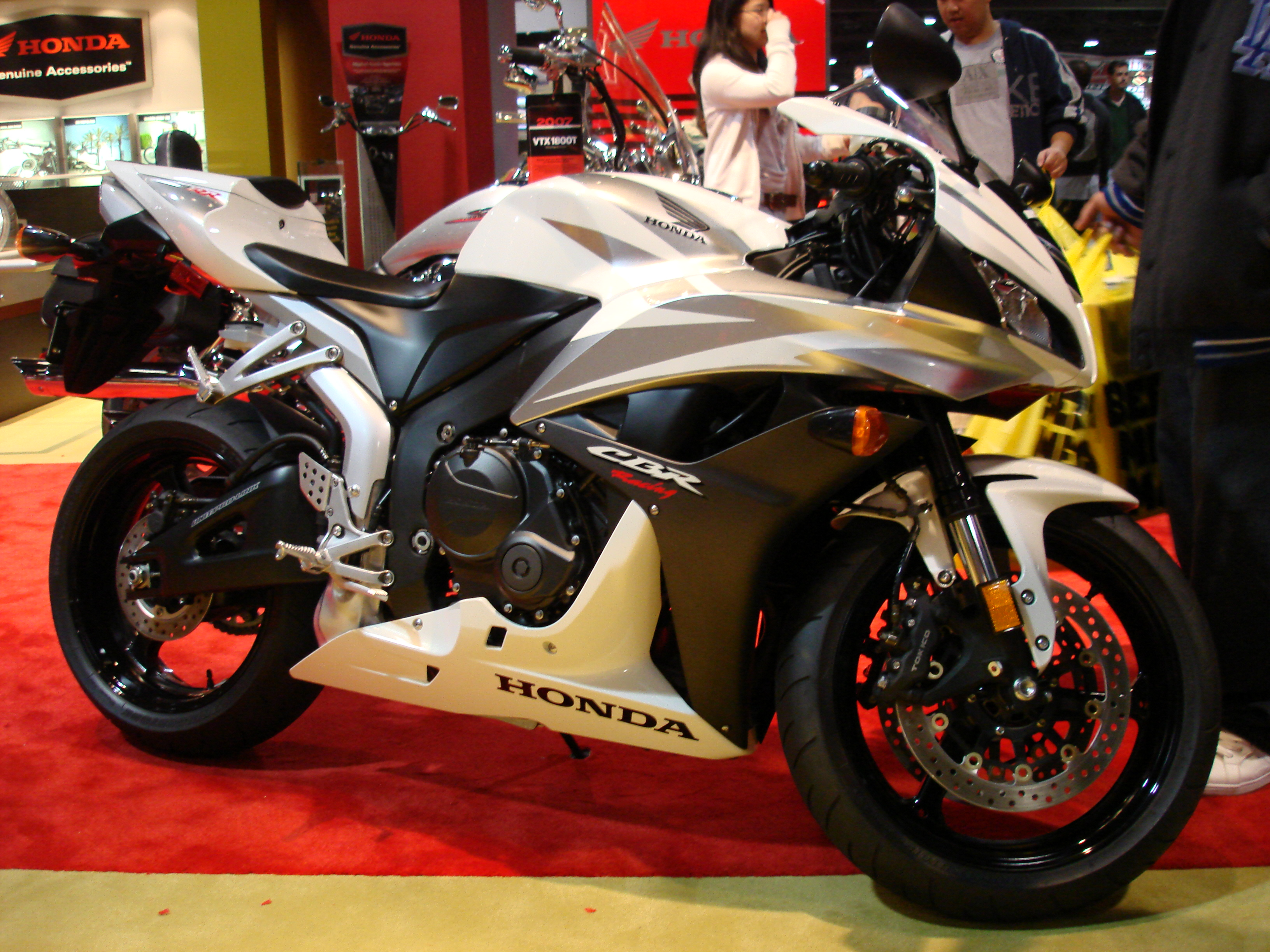 2007 Honda CBR600RR on display at the 2006 International Motorcycle Show in Long Beach, CA. Camera used was a Sony Cyber-shot DSC-W100.